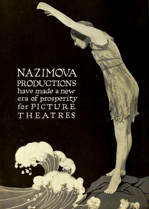 Ad for the American film Out of the Fog (1919) with Alla Nazimova, on page 842 of the February 15, 1919 Moving Picture World.